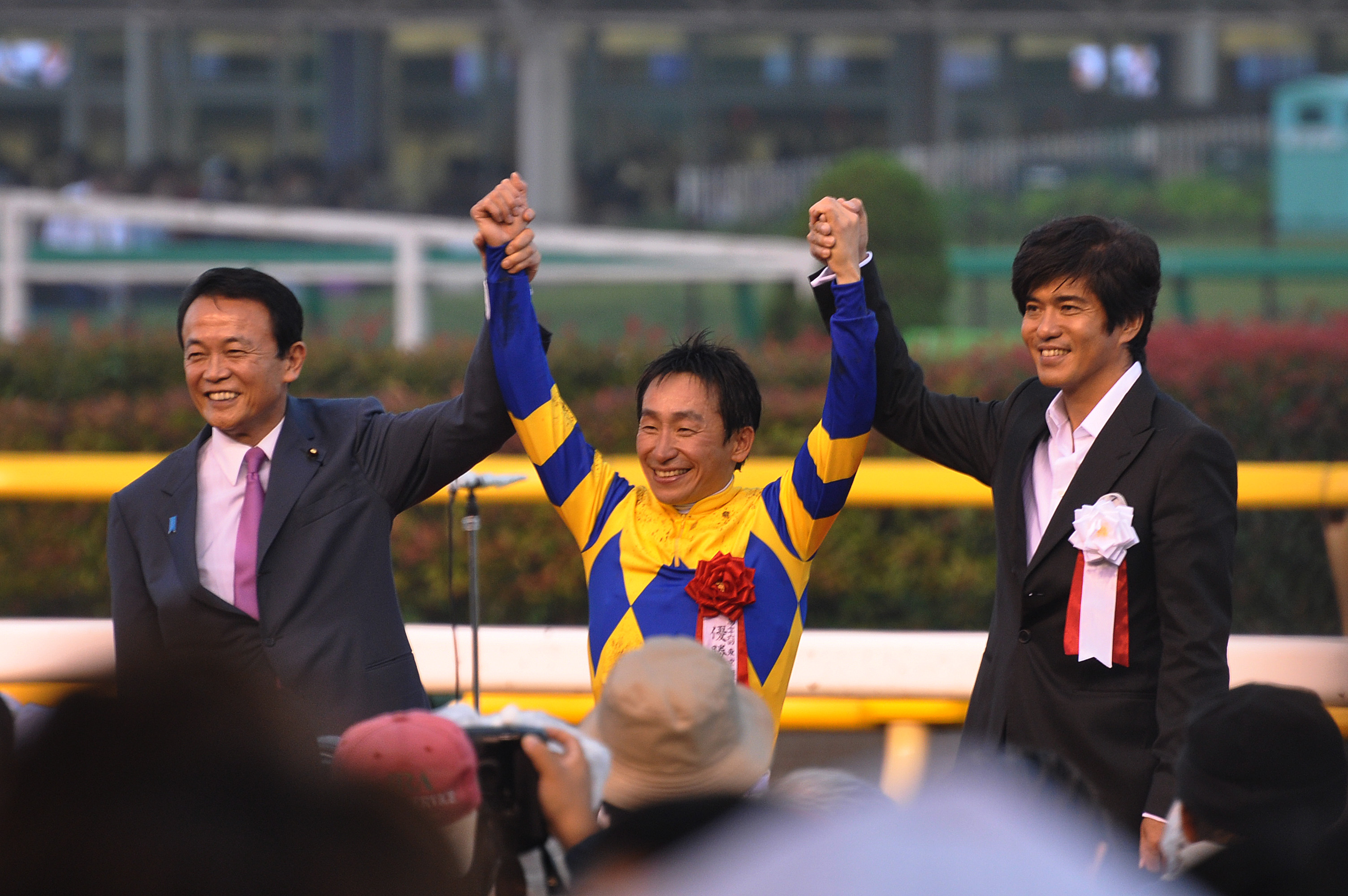 Tarō Asō, Norihiro Yokoyama and Kōichi Satō.